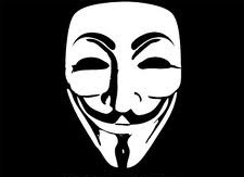 Anonymous